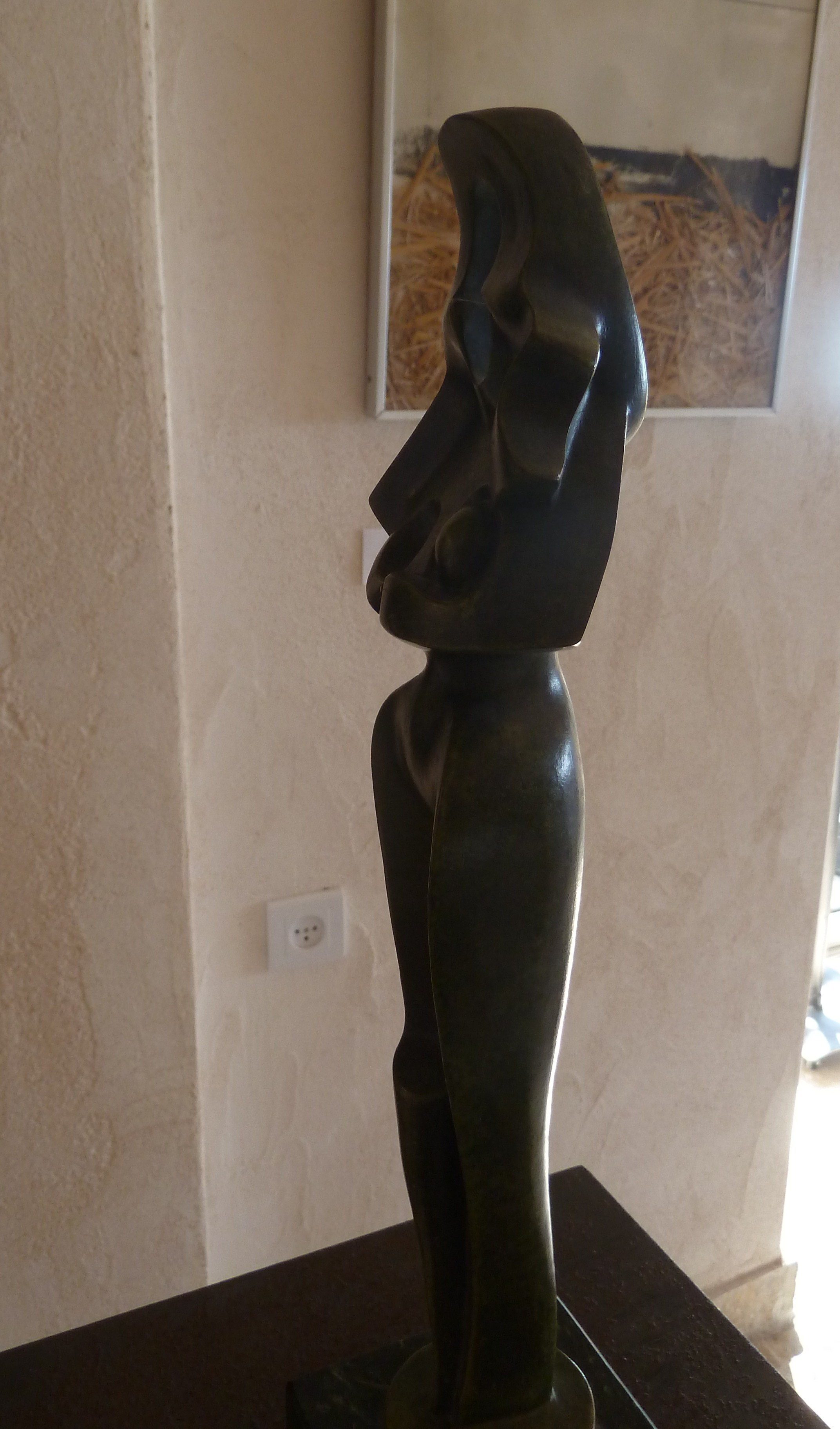 "Madona", Sculpture by Alexander Archipenko, displayed at the Ilana Goor Museum, Jaffa